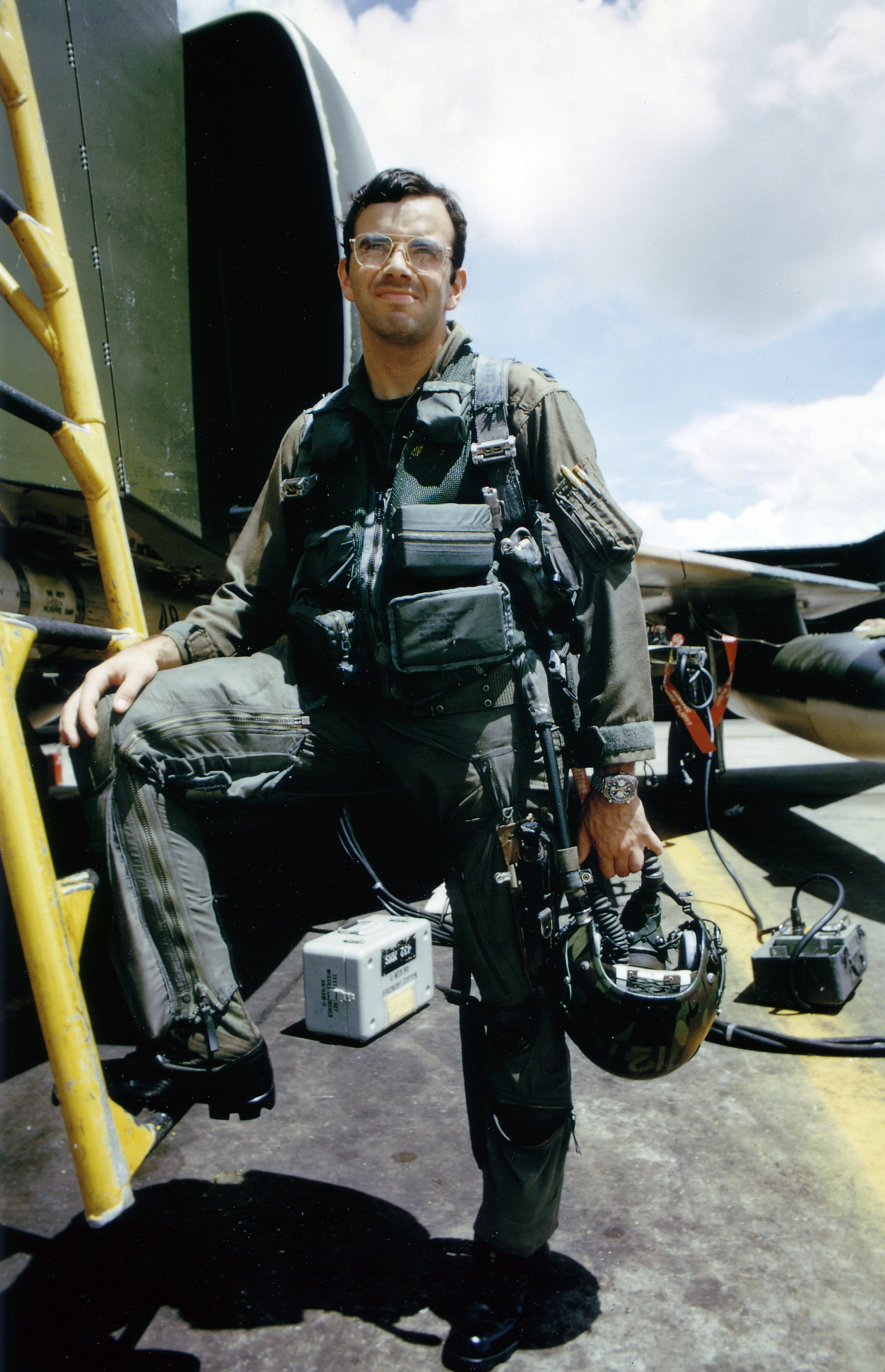 UDORN AIR BASE, Thailand, September 1972 -- U.S. Air Force ace, Capt. Jeffrey Feinstein, 13th Tactical Fighter Squadron, poses beside his F-4 aircraft.